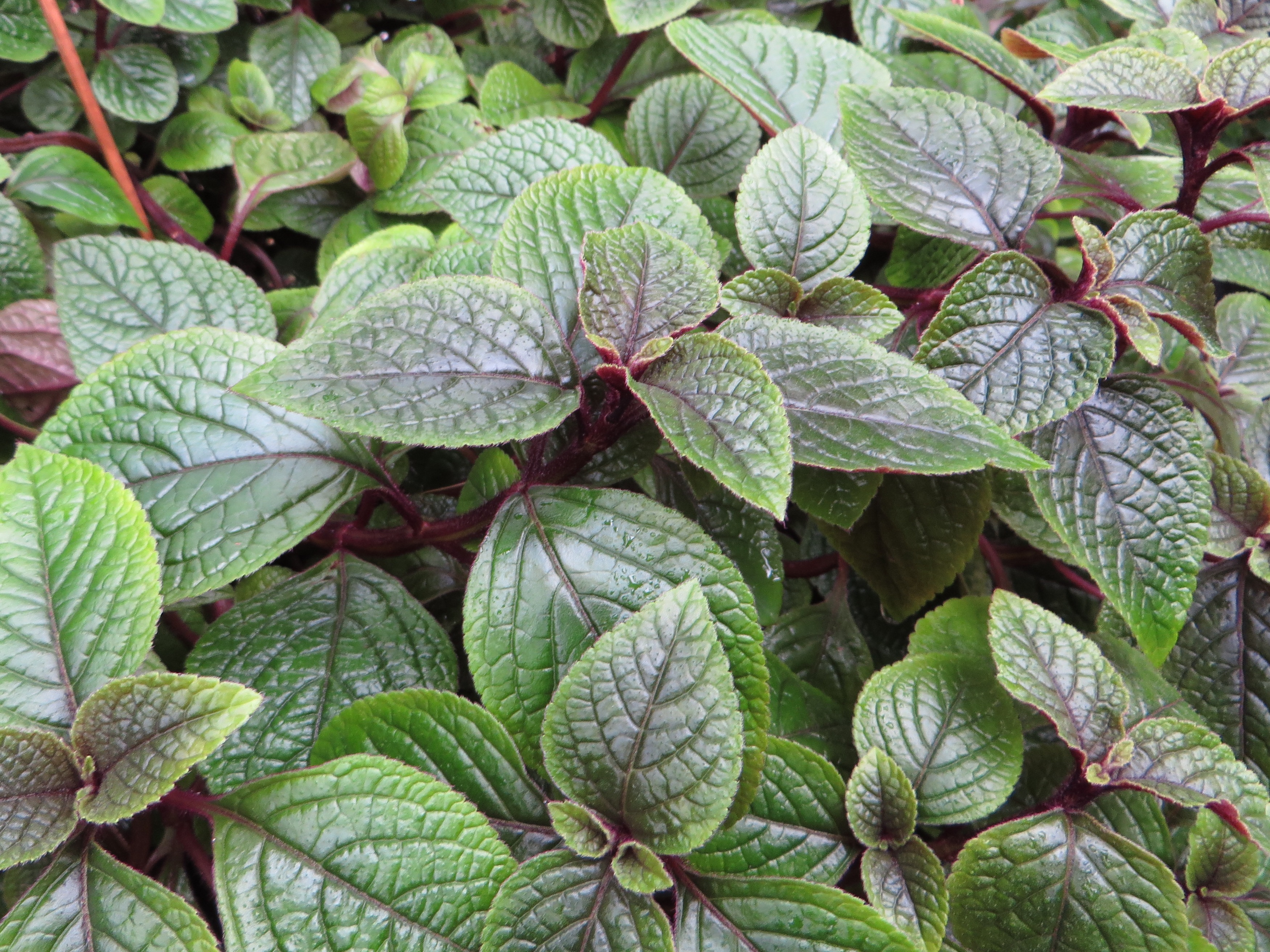 Plectranthus forsteri. The Botanical Garden of the University of Latvia